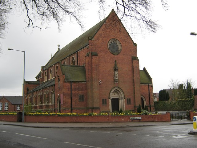 St Edwards Church Raddlebarn Road On the corner of Bournbrook Road